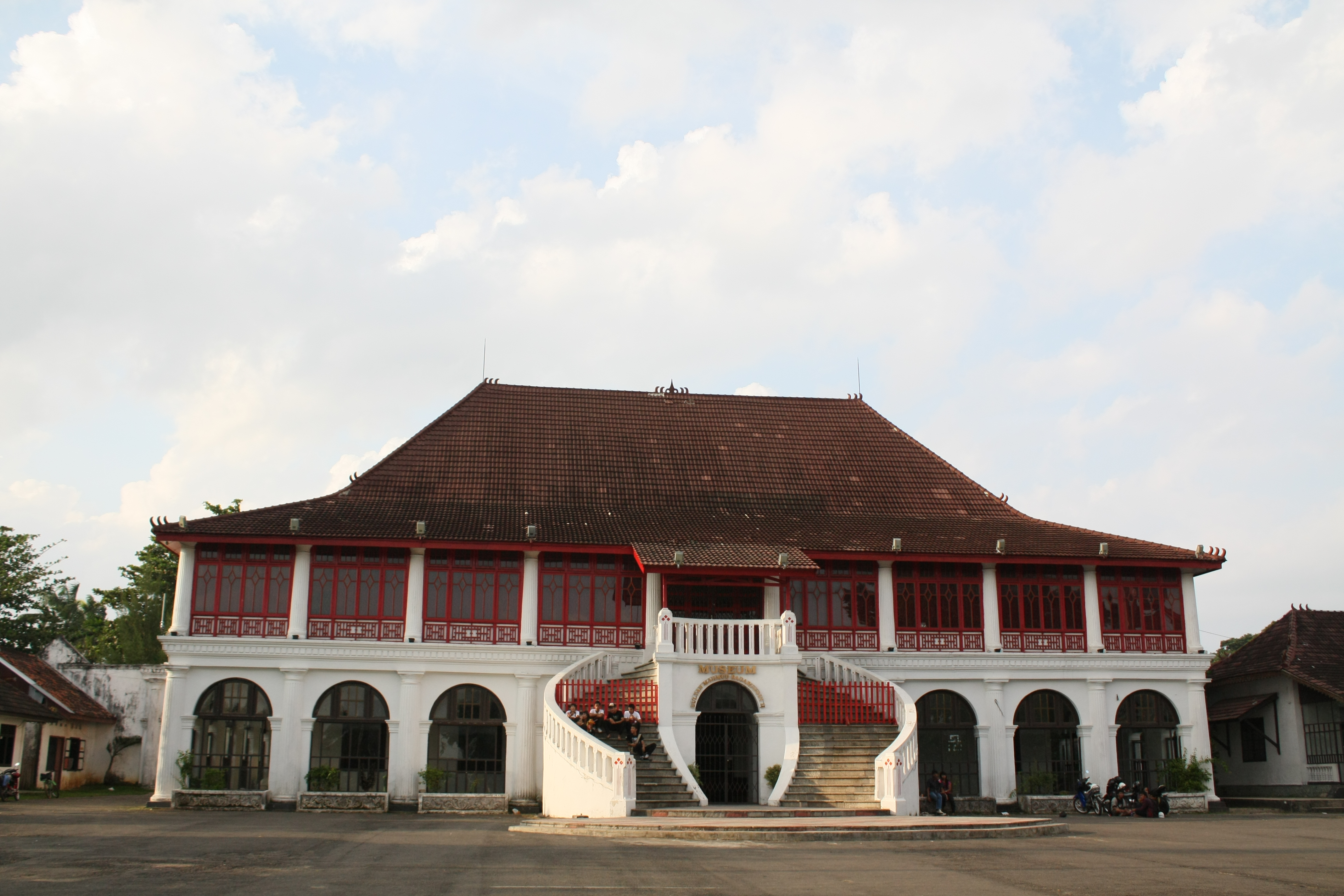 Sultan Mahmud Badaruddin II Museum at BKB Plaza Palembang